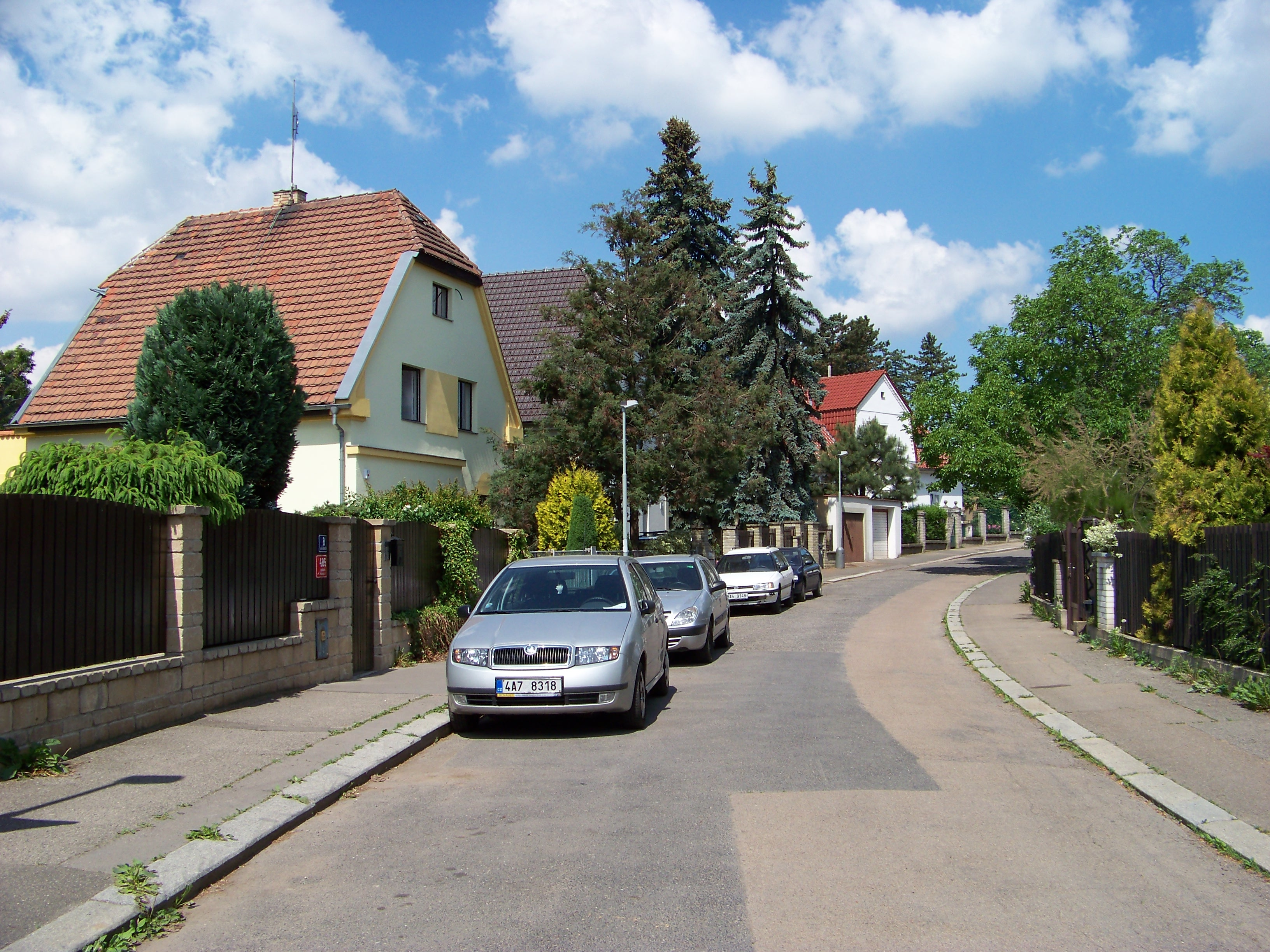 Prague-Braník, the Czech Republic. Na Dobešce 6 – 2.